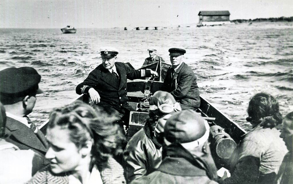 Artur Toom with tourists in Vilsandi, 1939